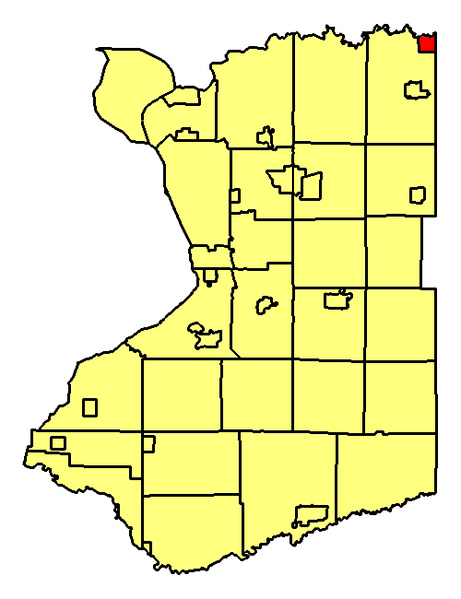 Position of the town, city, village, or reservation within Erie County, New York